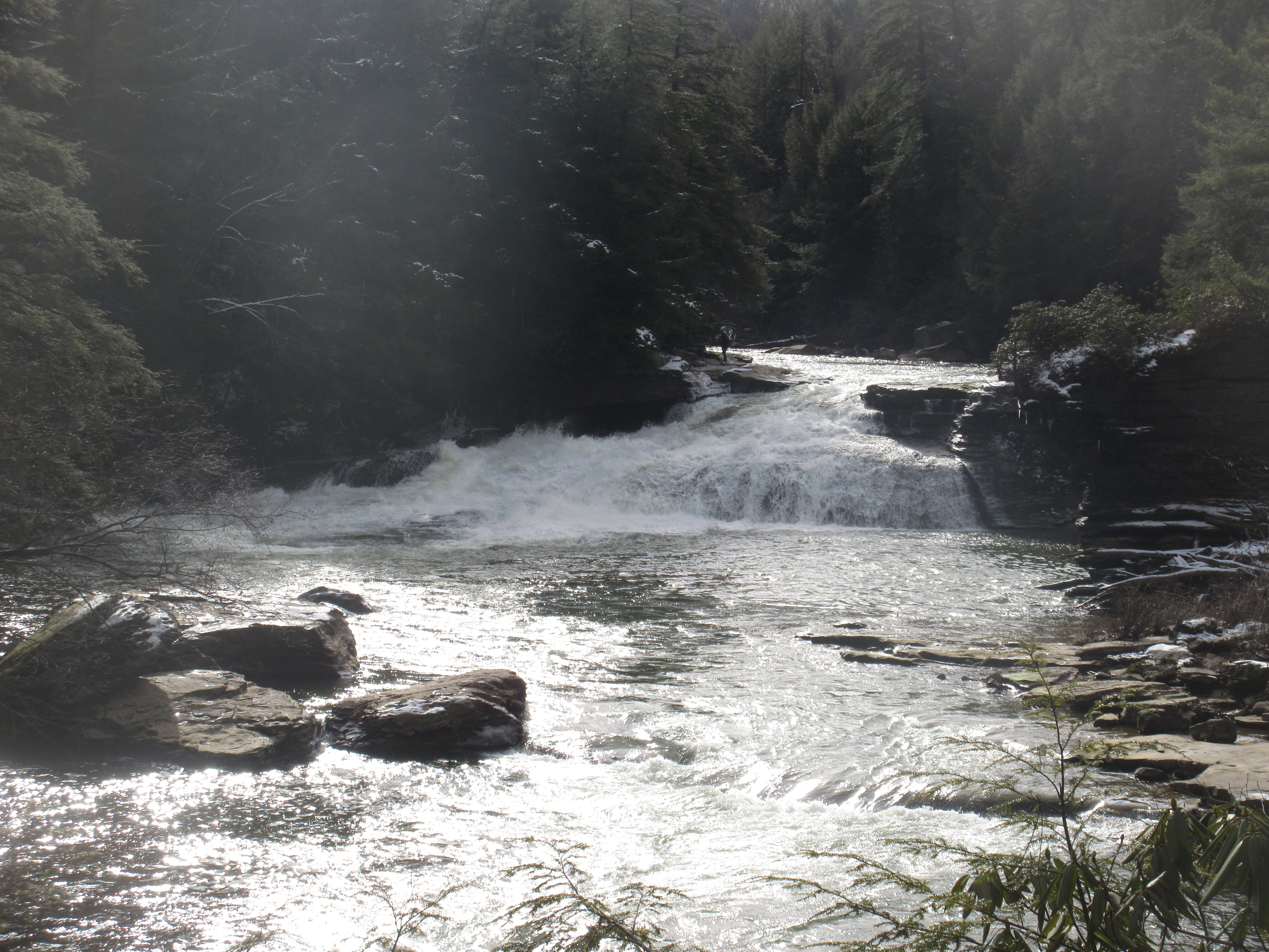 Upper Shallow Falls